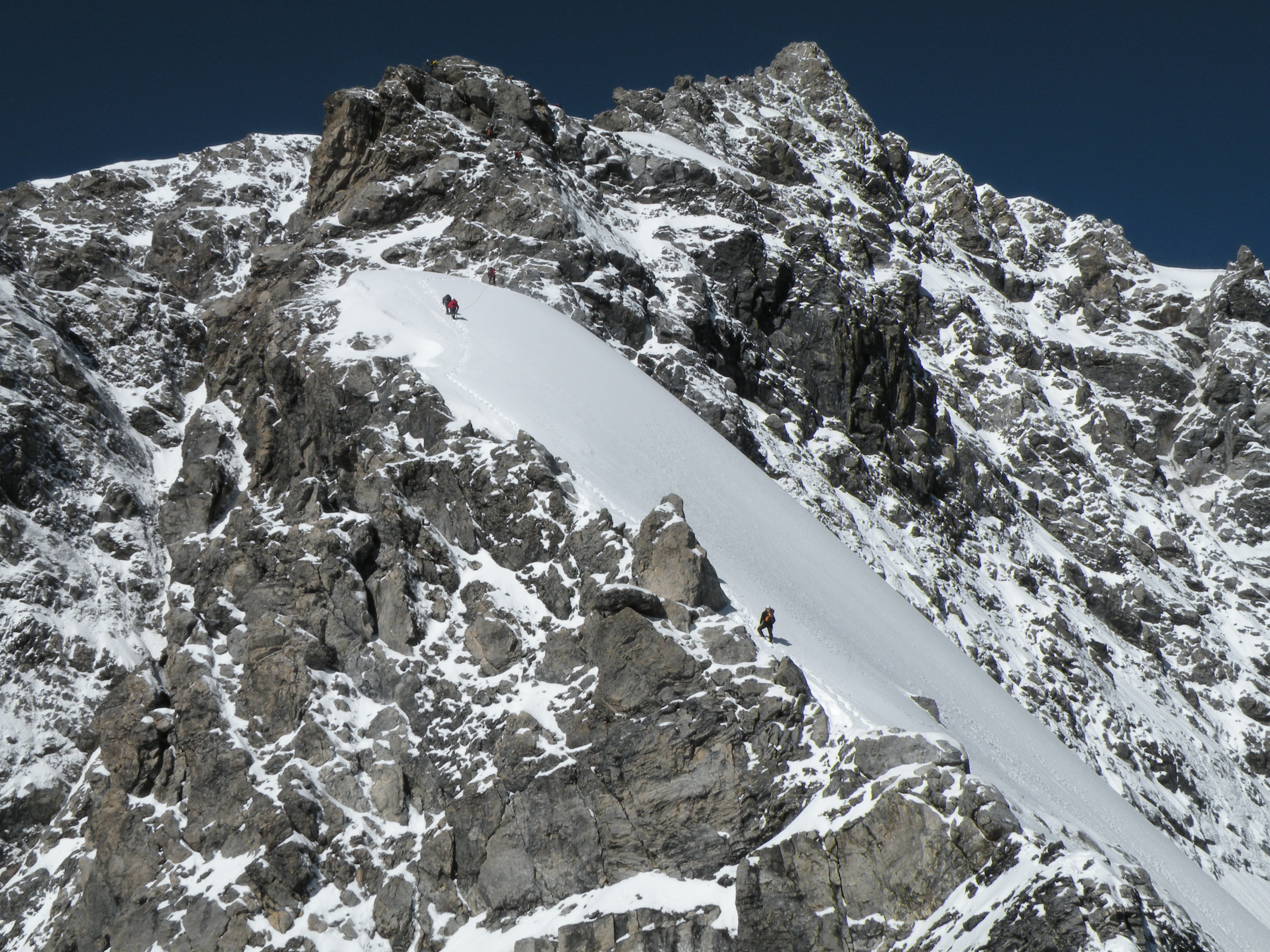 Ortler Hintergrat